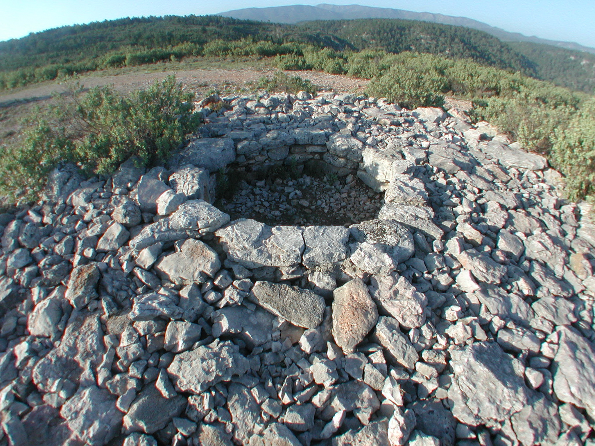 Tholos of "la louve" in Salernes